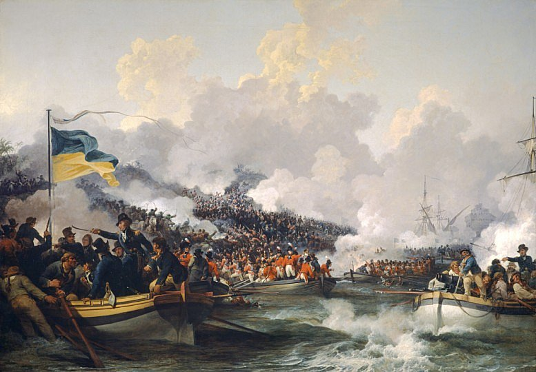 This painting and its companion, ‘The Battle of Alexandria’, commemorate a turning point in an early campaign of the Napoleonic Wars, following the French occupation of Egypt and consequent threat to the security of British India. An army commanded by General Abercromby forced a landing at Aboukir Bay and defeated the French at nearby Alexandria two weeks later. The artist, De Loutherbourg, was not present at these events, but he used detailed eye-witness descriptions to create an accurate image of the action. The painting contains several recognisable portraits of senior officers: the standing figure in the boat to the left is Sir Sidney Smith; the dominant figure in the central boat with his arm outstretched is Major-General Coote. Abercromby himself is not depicted in this scene.